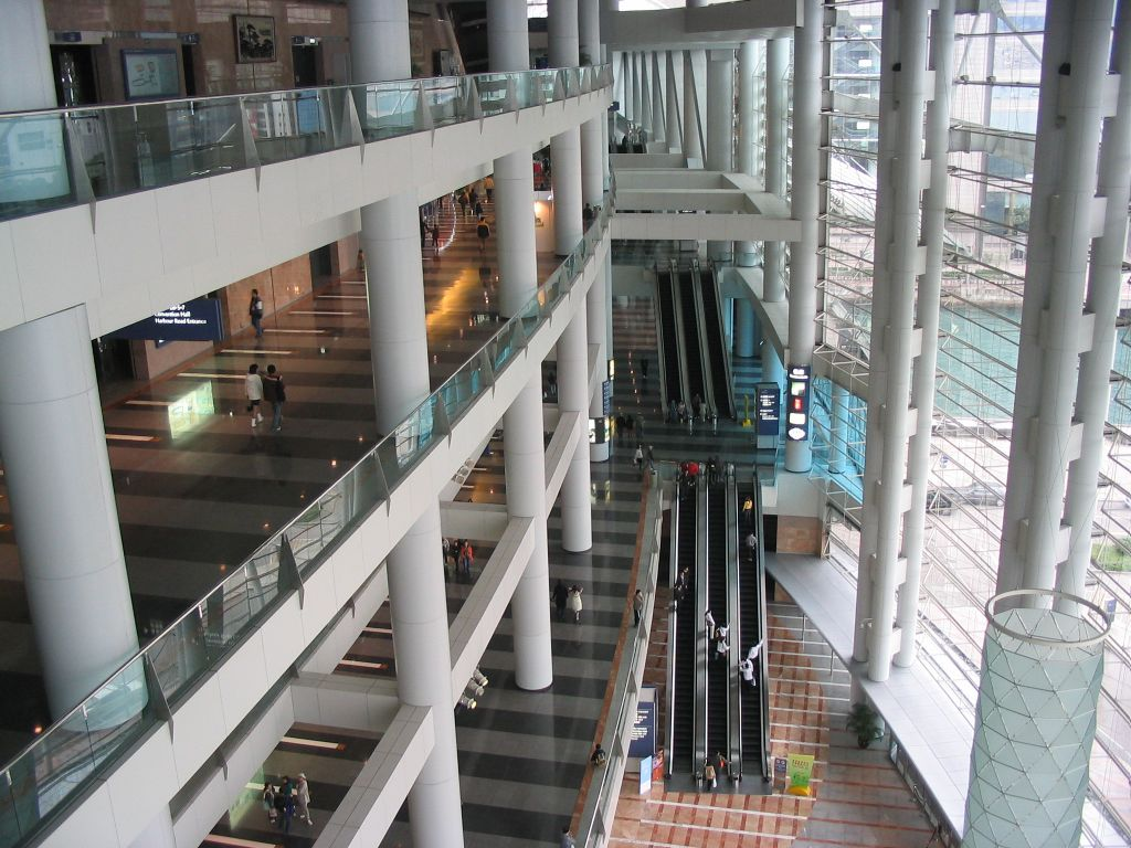 香港會議展覽中心新翼內部中庭 Interior of Hong Kong Convention and Exhibition Centre New Wing (HKCEC)